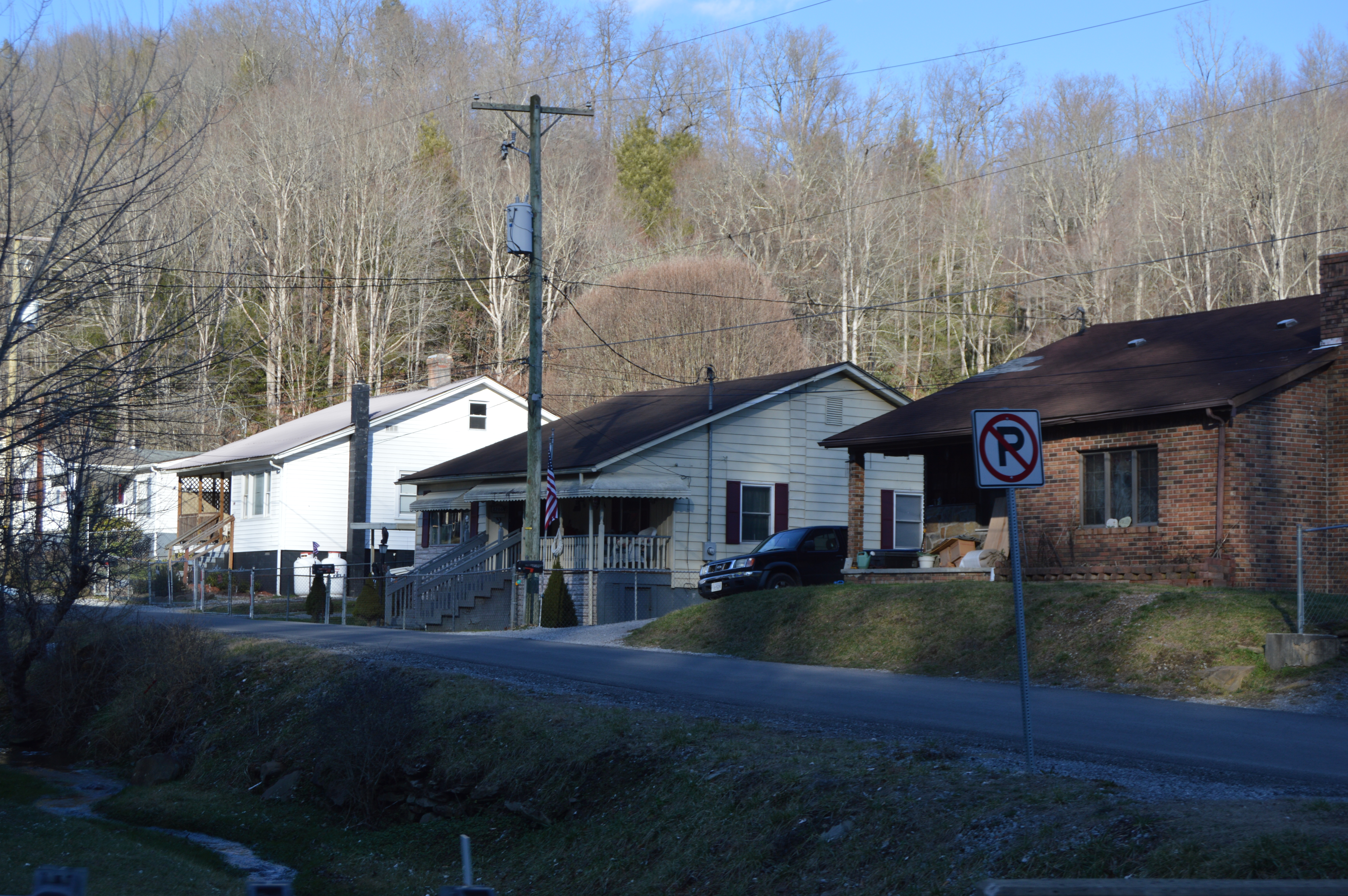 Houses on Ash Street north of State Route 68 at Exeter in Wise County, Virginia, United States.